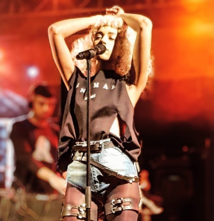 the image captures the artist in her profession